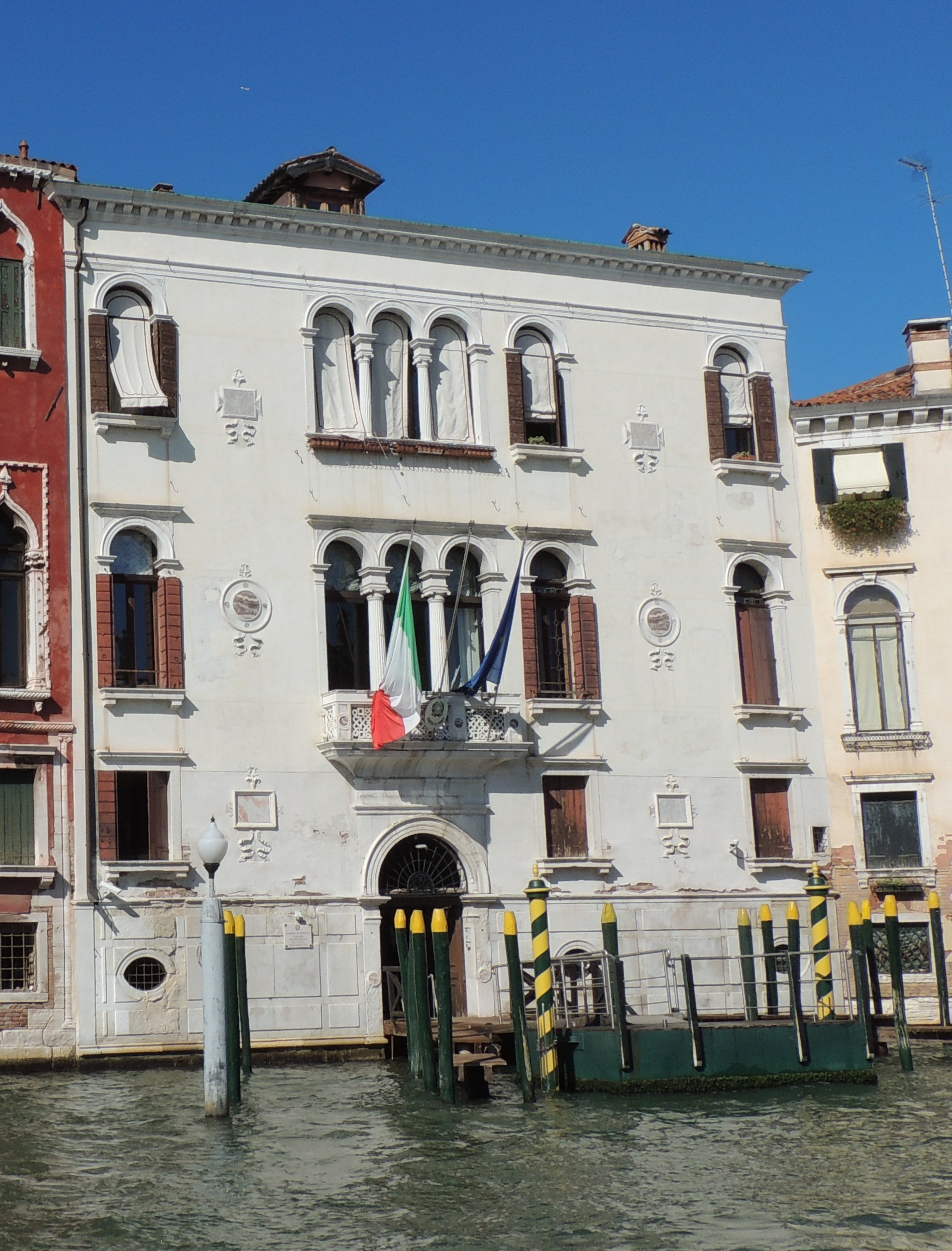 palaces of canal grande